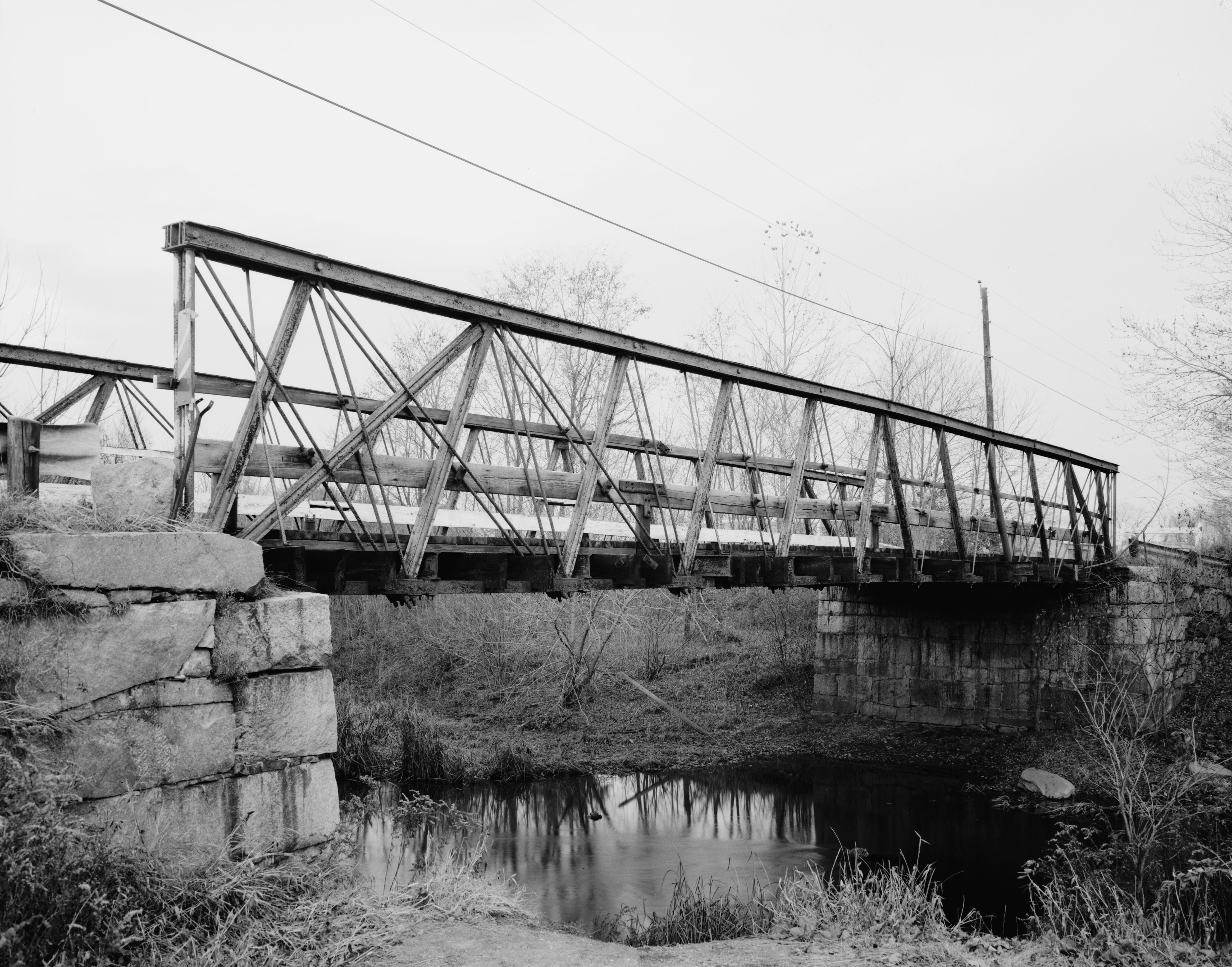 Atherton Bridge, Spanning Nashua River on Bolton Road, Lancaster vicinity, Worcester County, MA